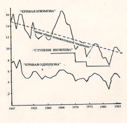 profit rate